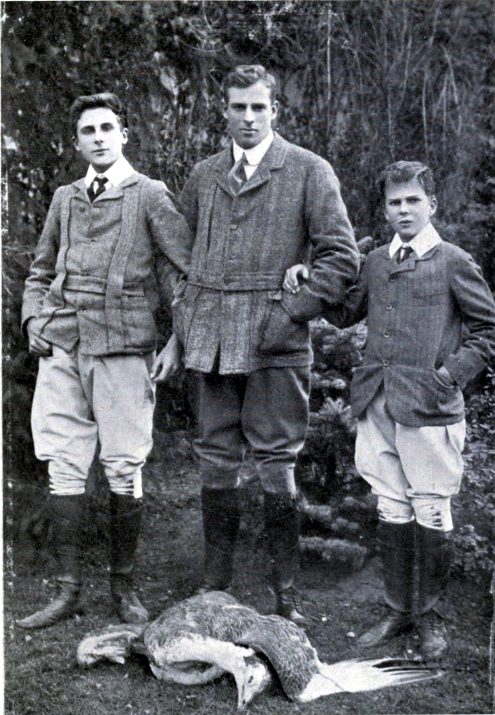 Anthony Wilding, with Béla and Antal Lipthay, at Louvrin, Hungary, in 1907